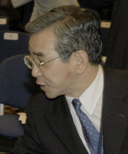 Mizoguchi Zenbei